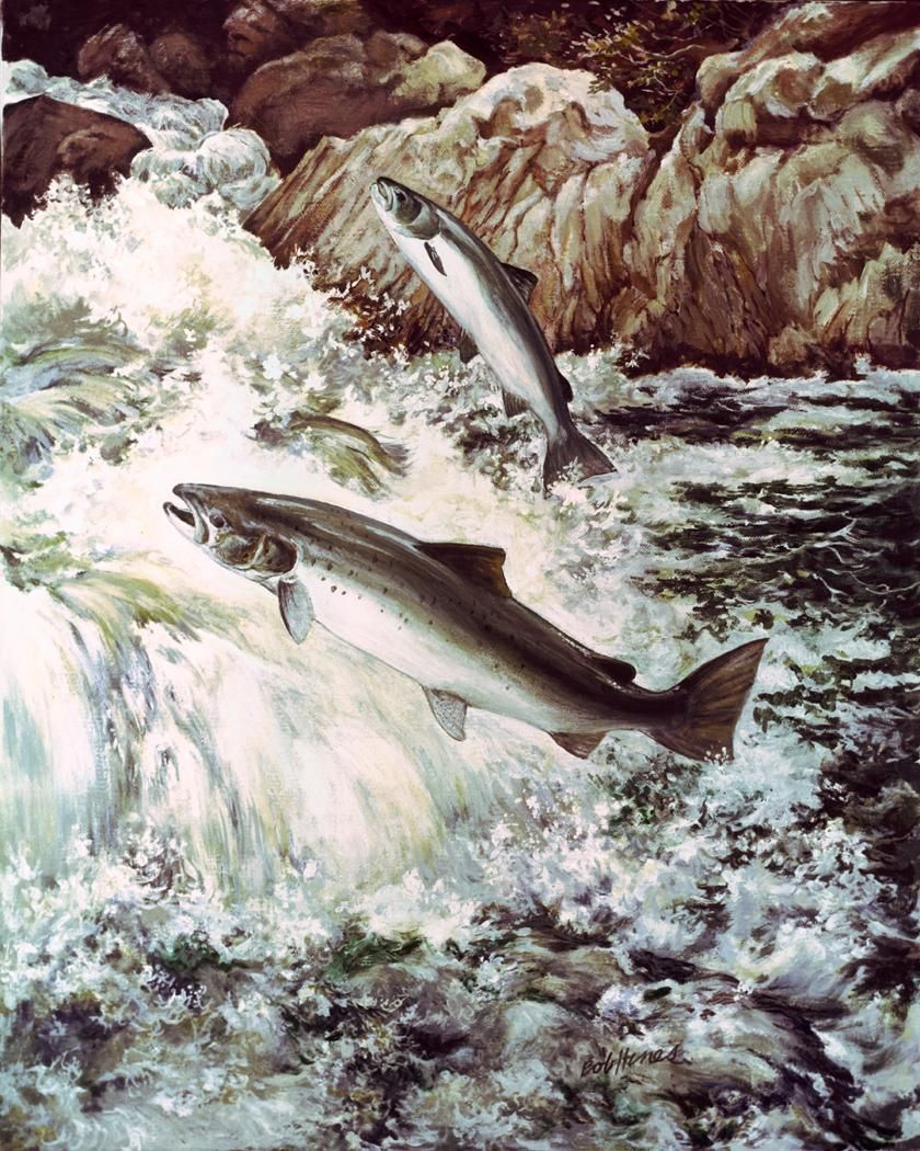 Image title: Salmon fish swimming upstream Image from Public domain images website